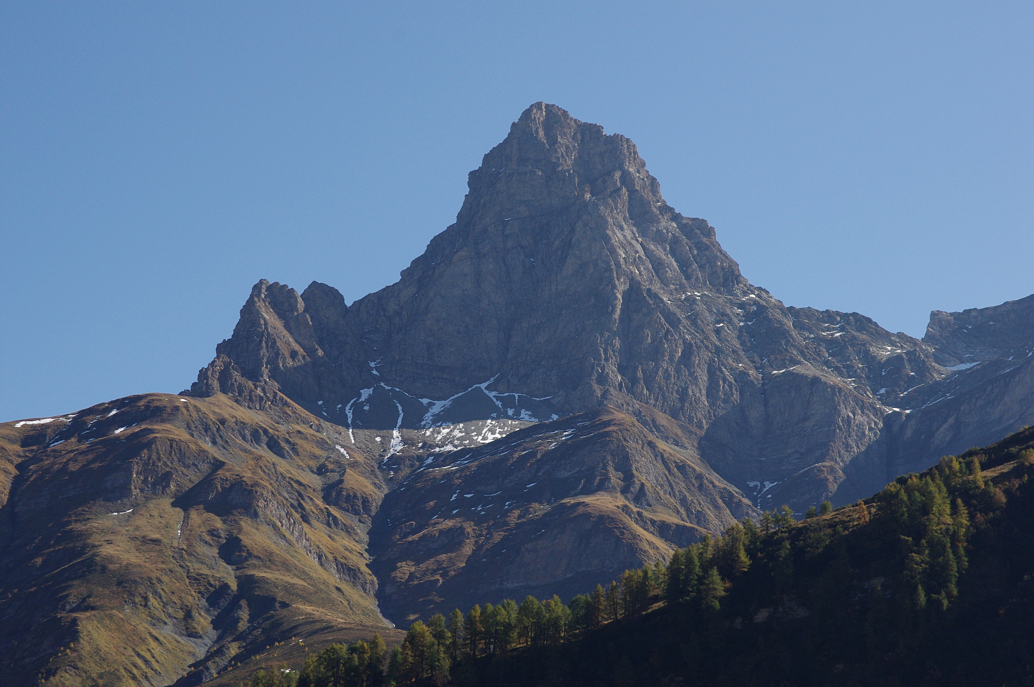 View on Einshorn from Hinterrhein (Graubünden, Switzerland)